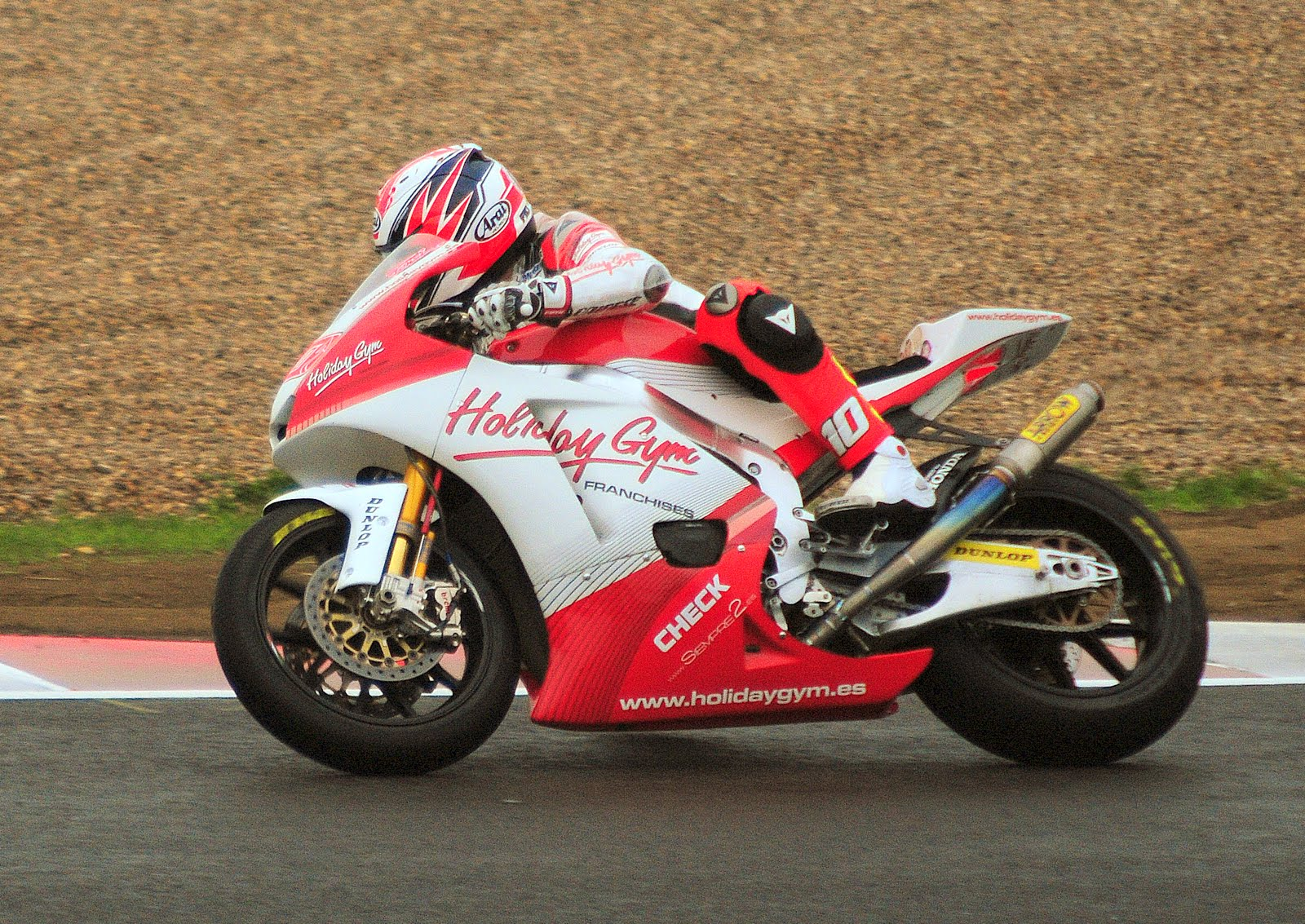 Fonsi Nieto 2010 Silverstone